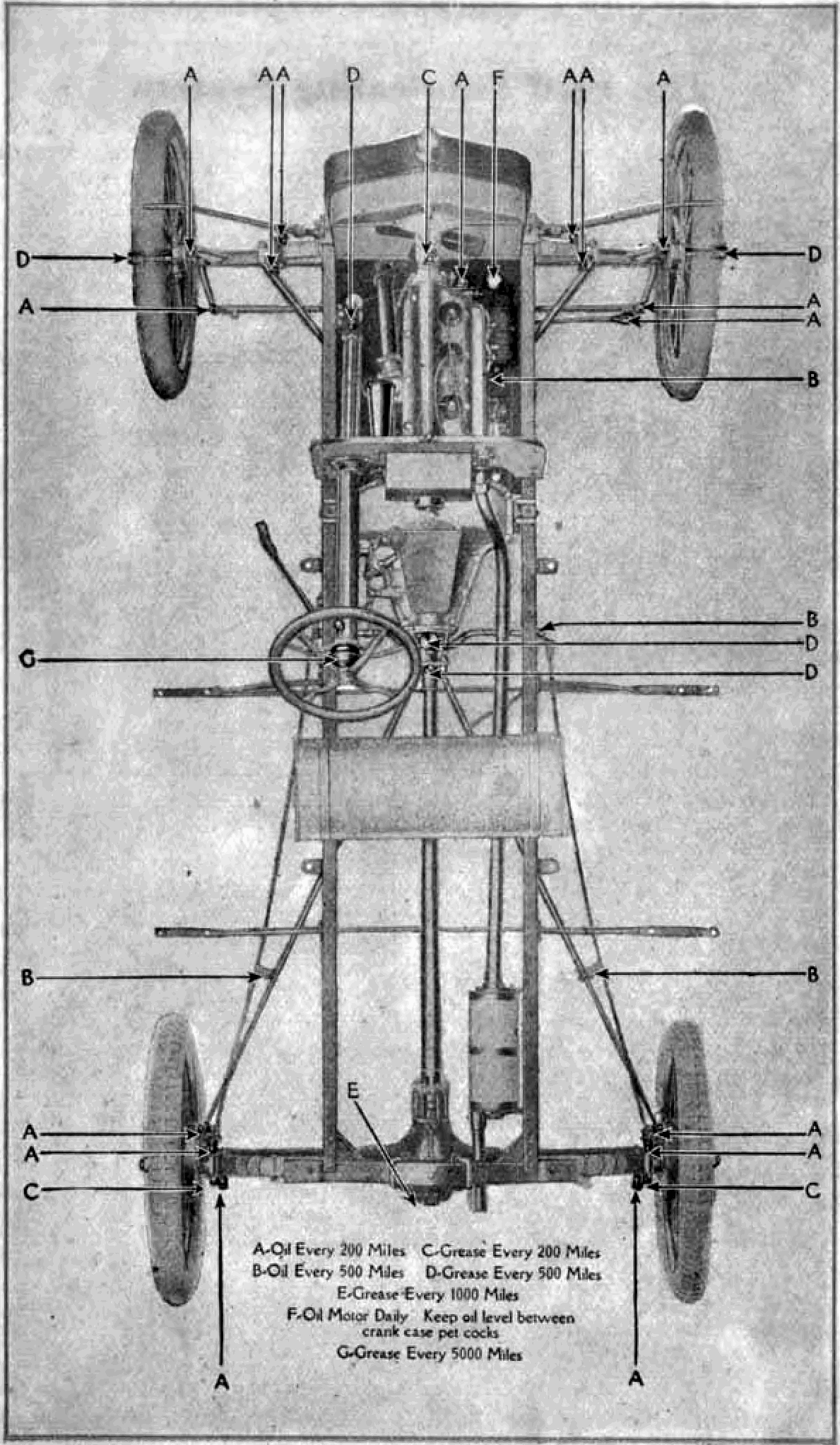 lubrication chart